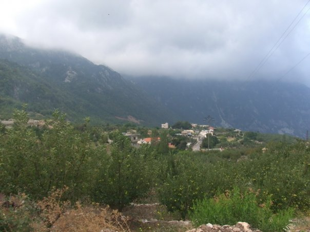 The valley of Karadouran (al-Samra) village in mountains near Kesab — far northwestern Syria, near the Syrian-Turkish border. Located on the eastern Mediterranean in Latakia Governorate. Native flora is in the Eastern Mediterranean conifer-sclerophyllous-broadleaf forests ecoregion,of the Mediterranean forests, woodlands, and scrub Biome.